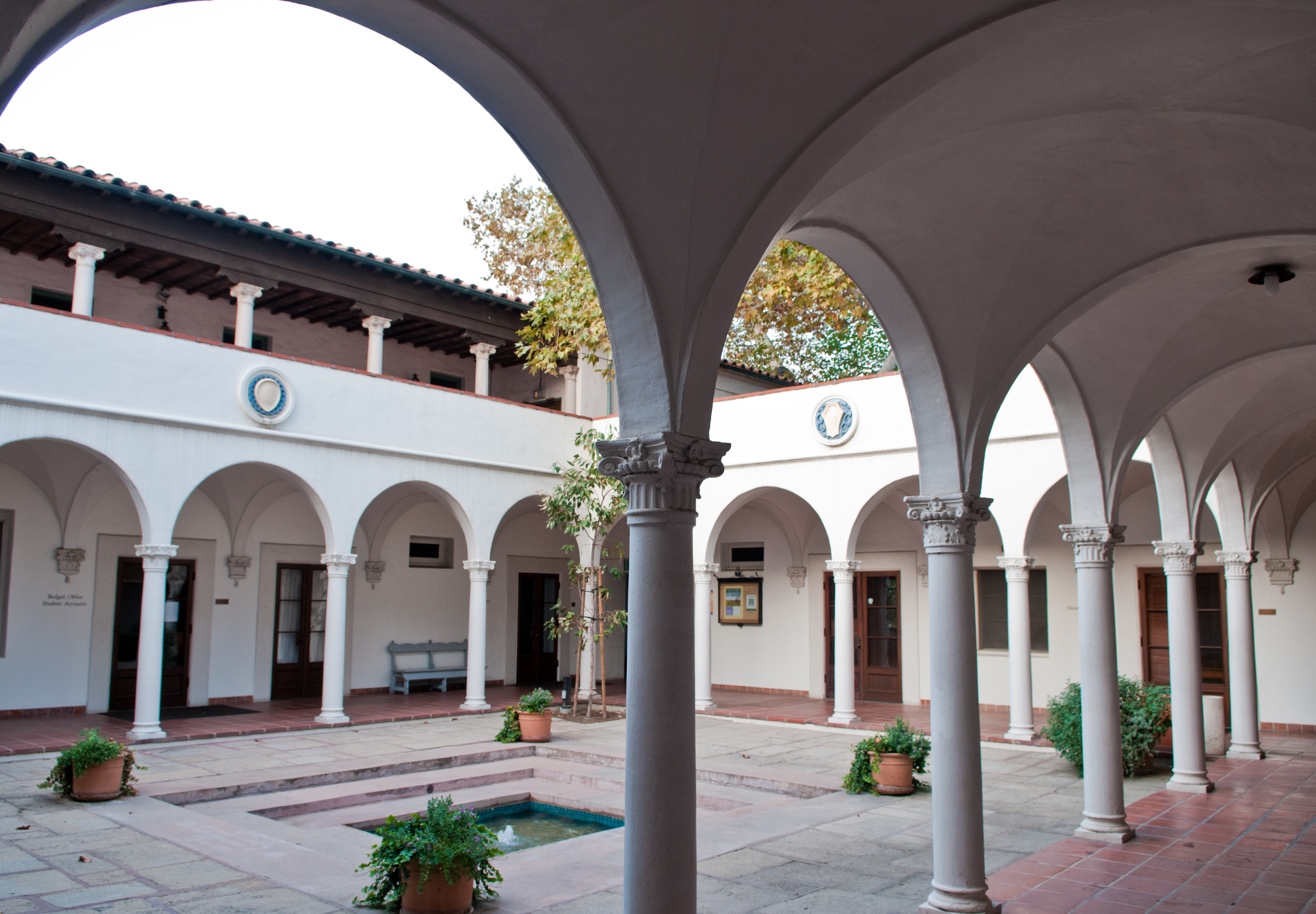 Scripps College for Women Peaceful courtyard inside Balch Building